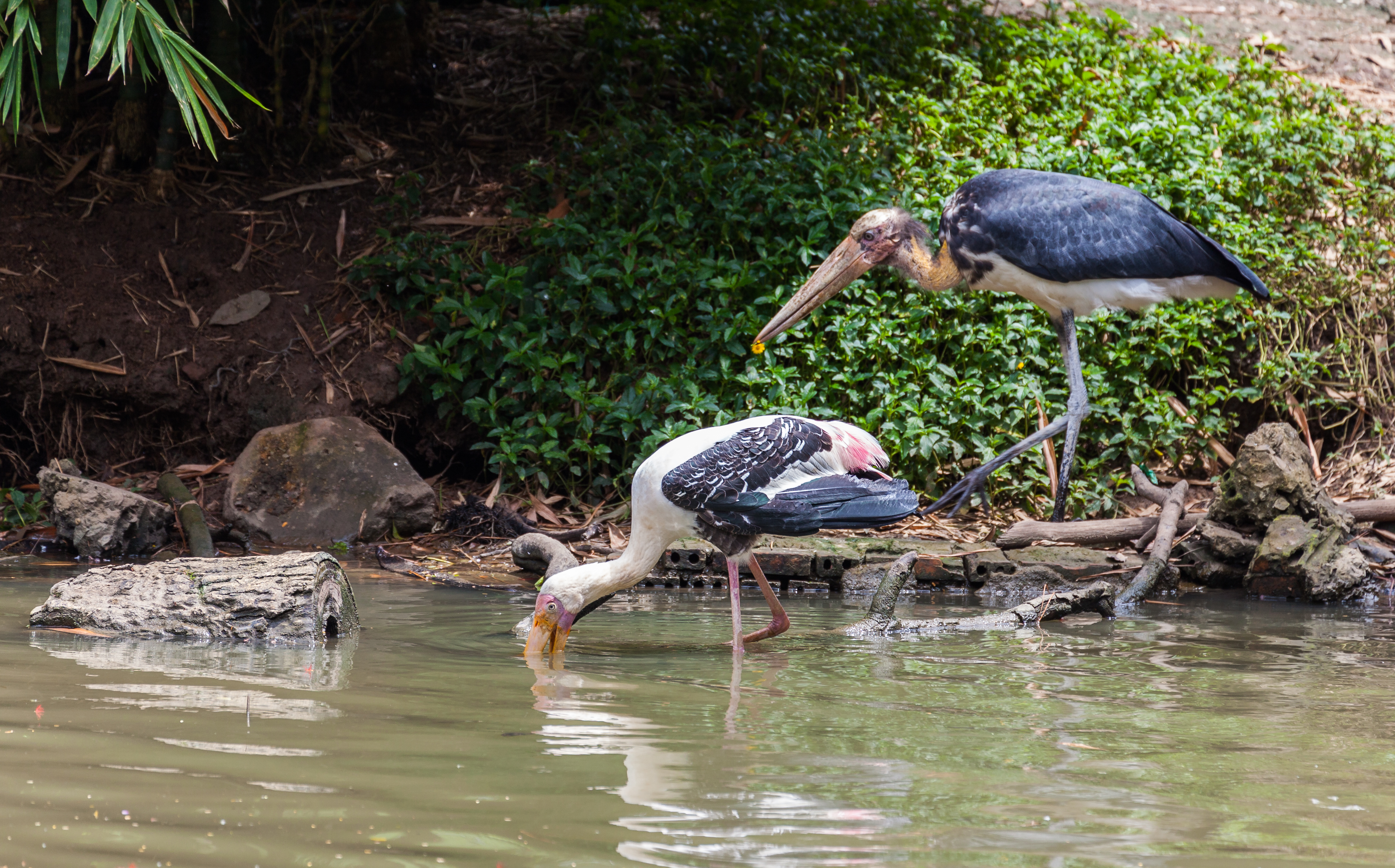 Lesser adjutant (Leptoptilos javanicus), on bank, with painted stork (Mycteria leucocephala), in water; Saigon Zoo and Botanical Gardens, Vietnam